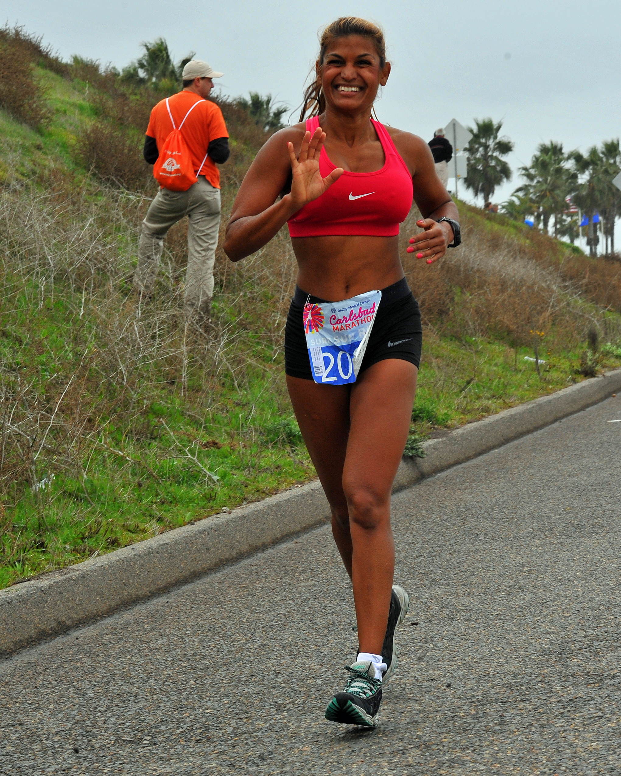 A tall woman wearing black shorts and a red sports halter top, both by Nike, smiles and waves at the camera as she runs by.